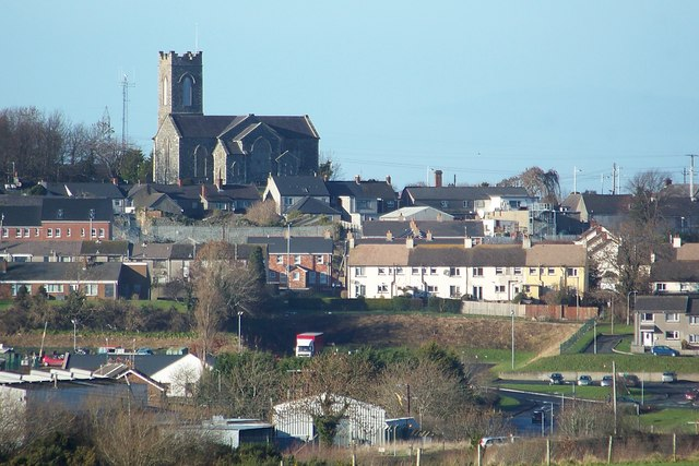 St. Marks on Tandragee Hill